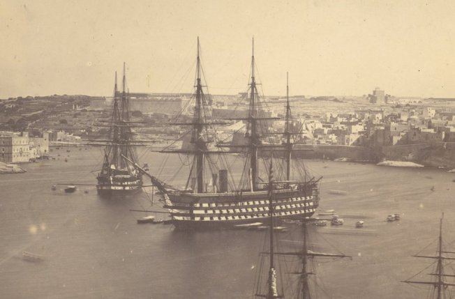 HMS Malborough in Valetta harbour in the 1850s